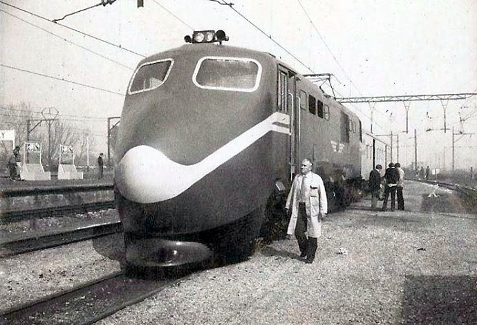 Class 6E1 Series 4 no. E1525 with nose cone during high speed testing. In 1978, no. E1525 was modified for experiments in high speed traction by re-gearing the traction motors and installing SAR designed Scheffel bogies and a streamlined nose cone. In this configuration, E1525 reached a speed of 245 kilometres per hour (152 miles per hour) on 31 October 1978, a still unbeaten world record on 3 feet 6 inches (1,067 millimetres) Cape gauge track.